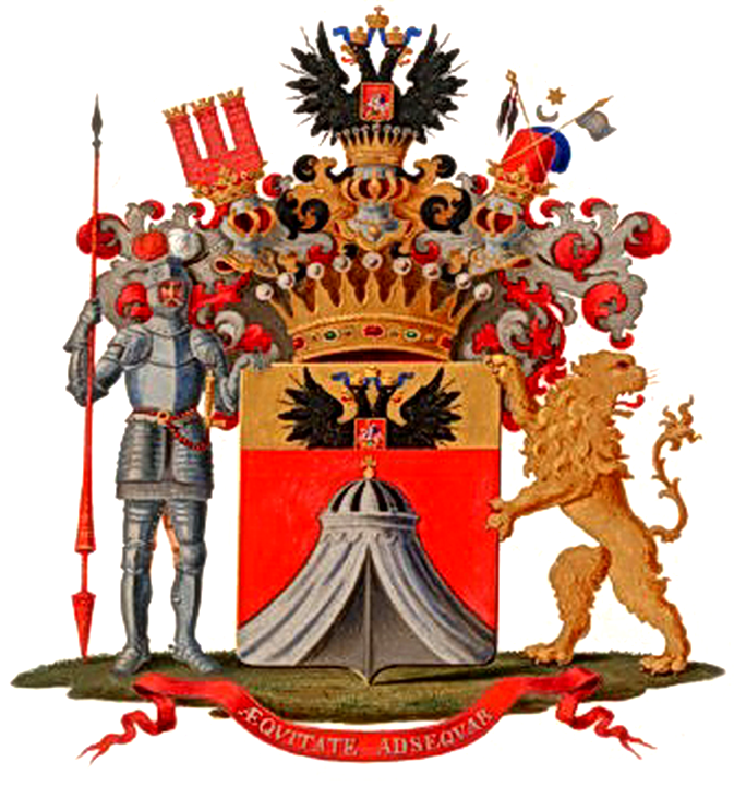 Coat of Arms